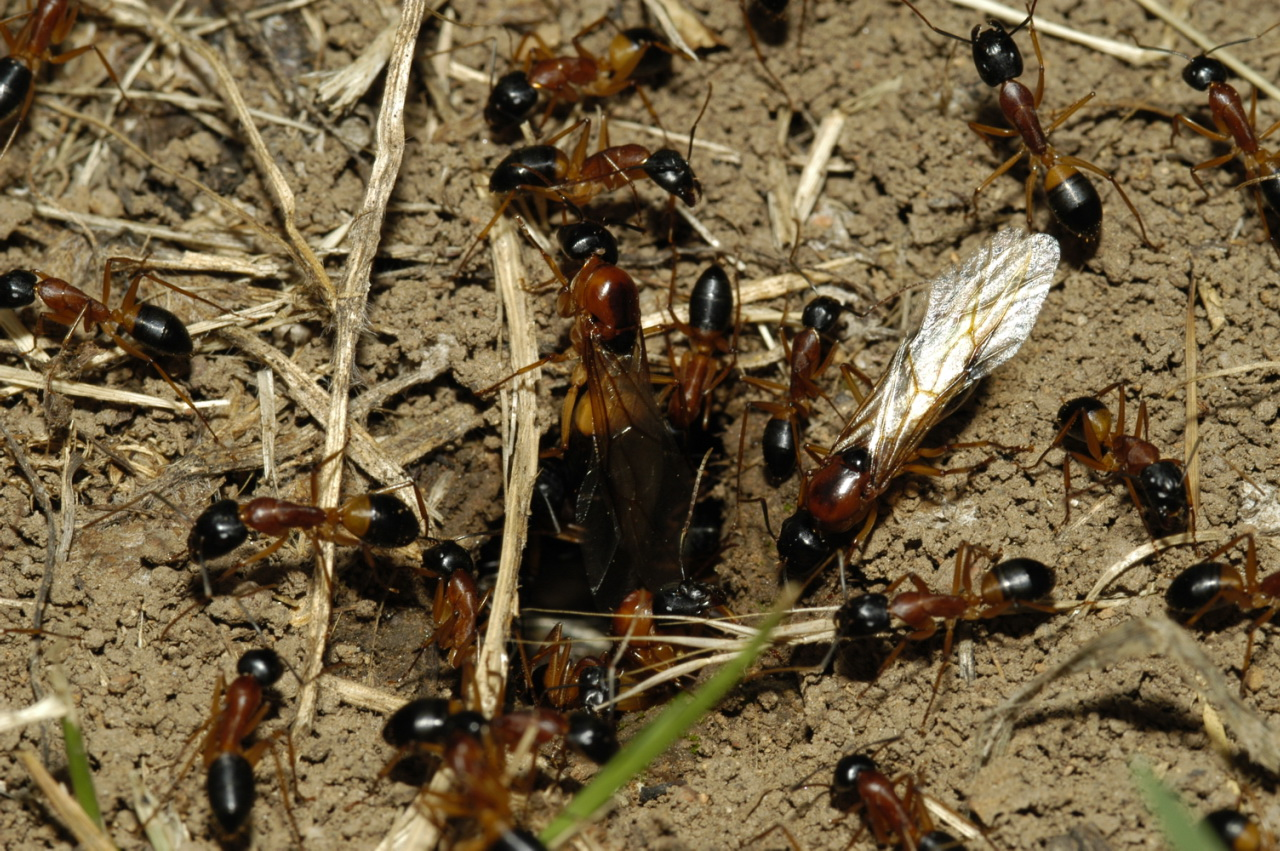 Sugar ants (Camponotus species in the nigriceps species group, such as this C. consobrinus) can be common in parks in gardens in south-eastern Australia. Their nests, while small, are messy with large amounts of dirt piled around a large entrance. In this case queens are being released for their nuptial flight.